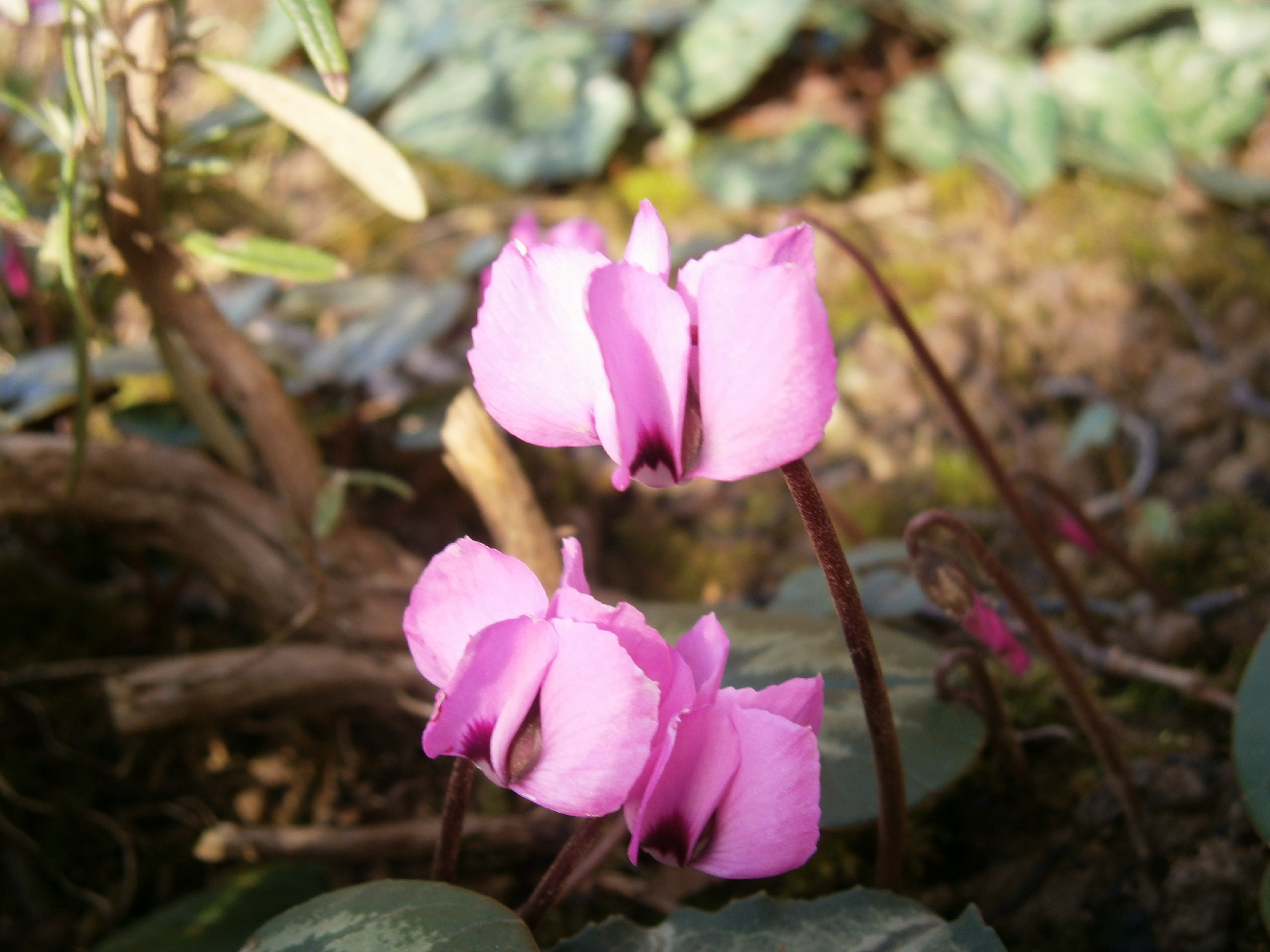 Cyclamen coum - light pink